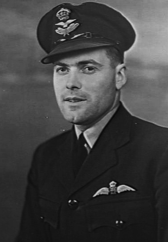 [Australian War Memorial description] ID number UK0837 Collection Photograph Object type Black & white Place made United Kingdom: England, Greater London, London Date made 9 December 1943 Physical description Black & white Description Portrait of 415270 Flight Lieutenant (Flt Lt) John Verdun Newton, Mingenew, WA, a member of the Western Australian Parliament, at RAAF Overseas Headquarters. He is a pilot in the RAAF serving in the UK, and the only flying Australian member of Parliament. Flt Lt Newton was killed in operations over Germany on 14 January, 1944 while attached to RAF 90 Squadron, and is buried in the Hanover War Cemetery.